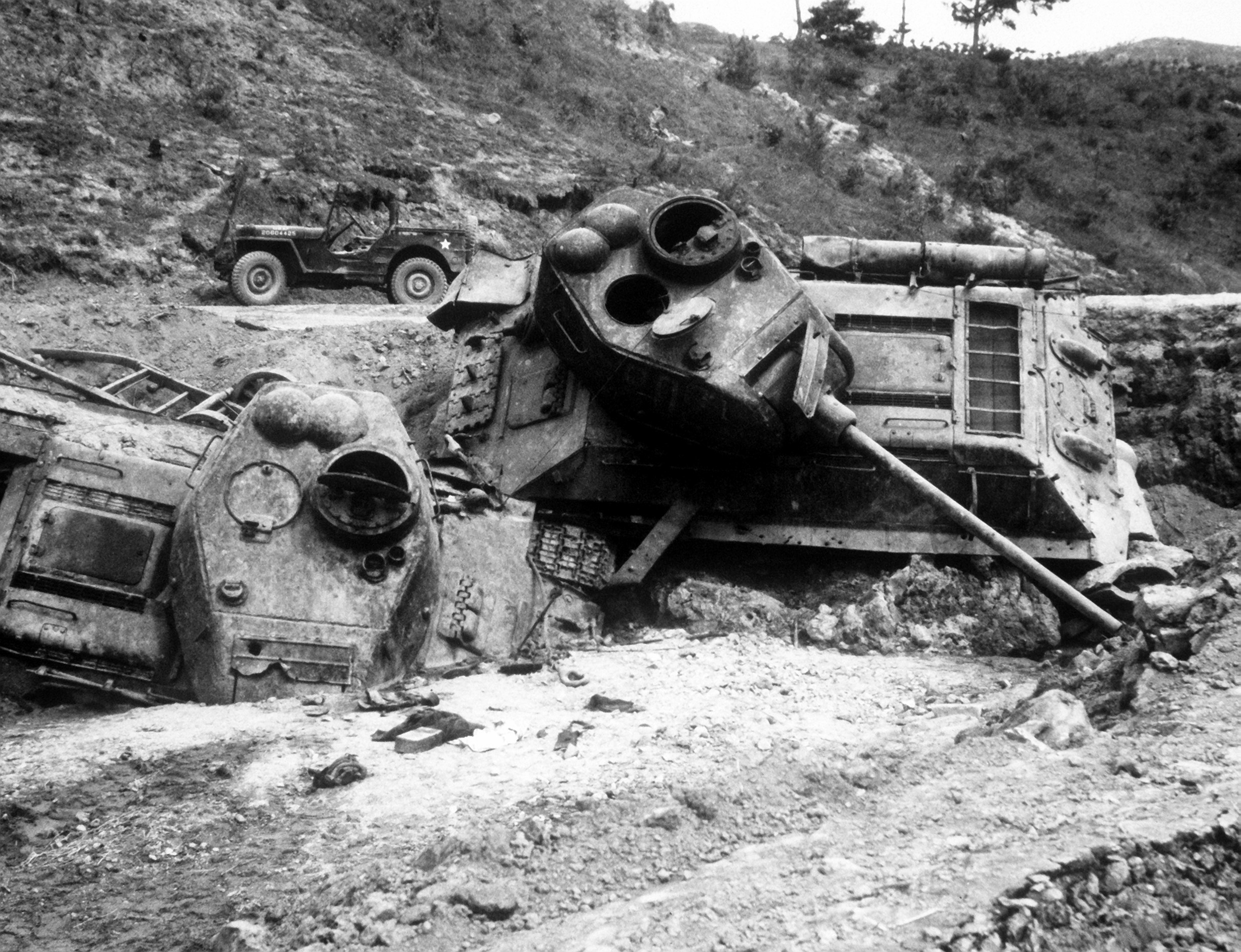 Napalm Bomb Victims. Mute testimony of accuracy of close support missions flown by Fifth Air Force fighters are these Red Korean tanks, blasted out of the path of advancing 24th Infantry Division units near Waegwan, Korea. AIR AND SPACE MUSEUM#: 77799 AC